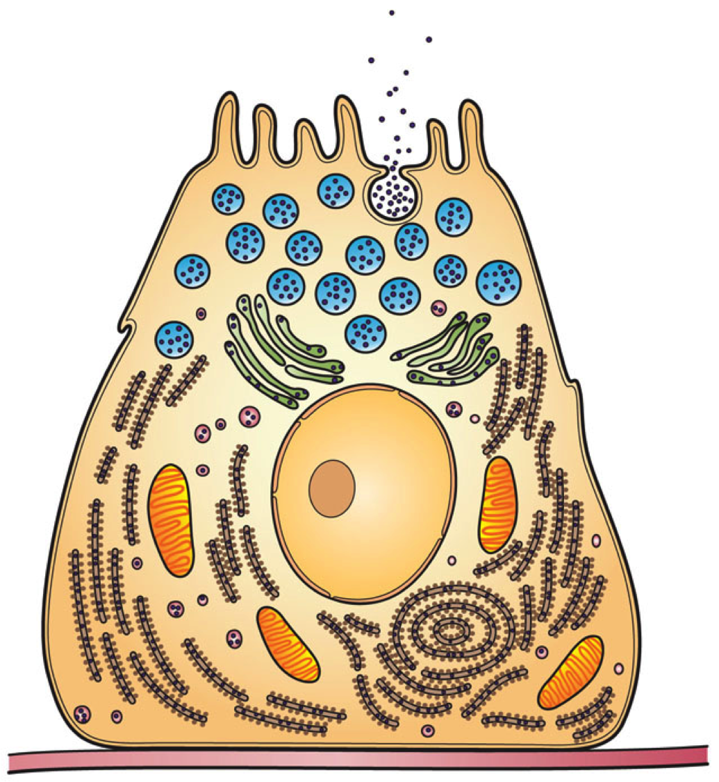 This image shows the organelles that make up the pathway of cellular secretion.